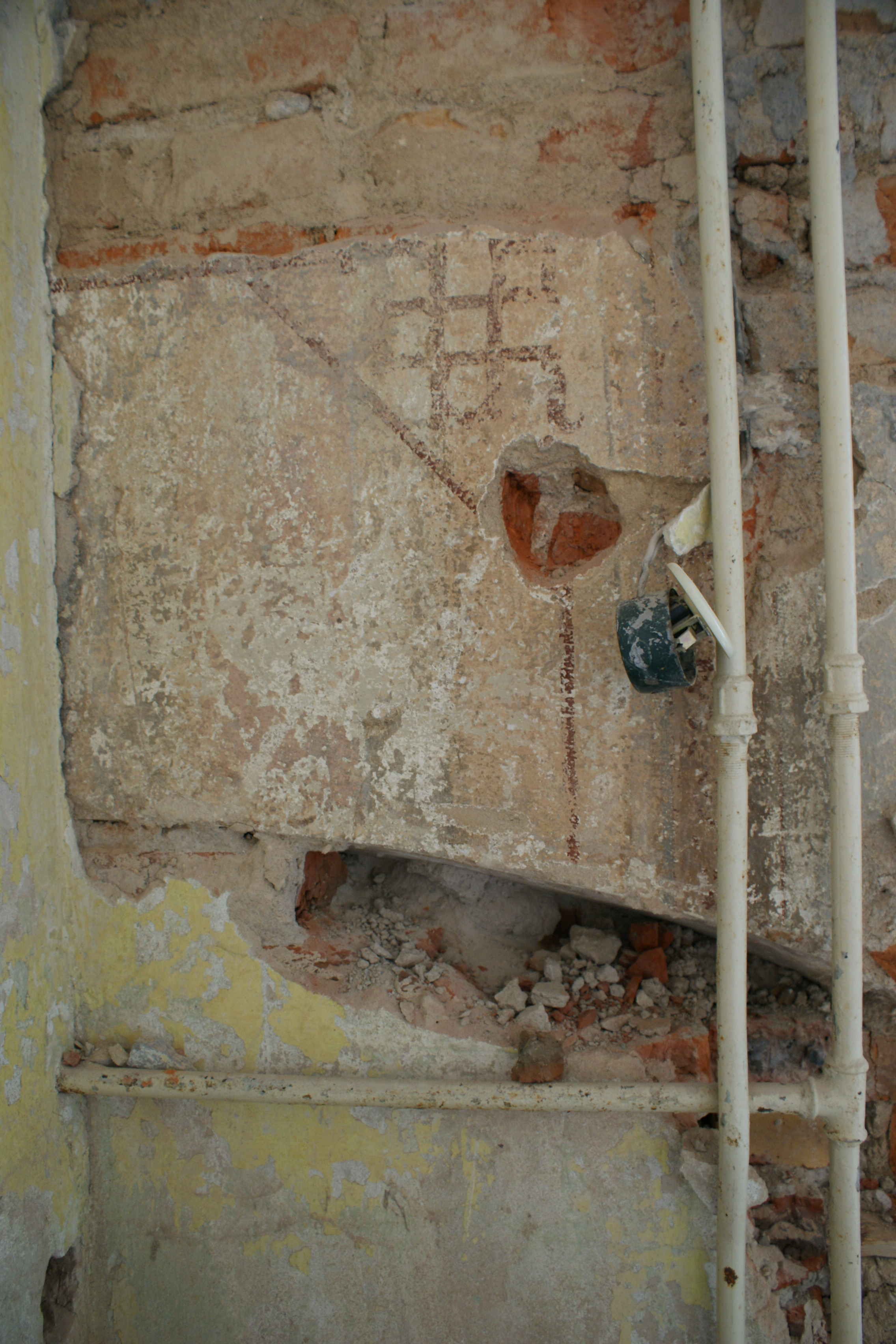 vul. Revaliucyjnaja, 24A. Miensk (Minsk). Was demolished in 2010. Historical wall paintings up the window approach.